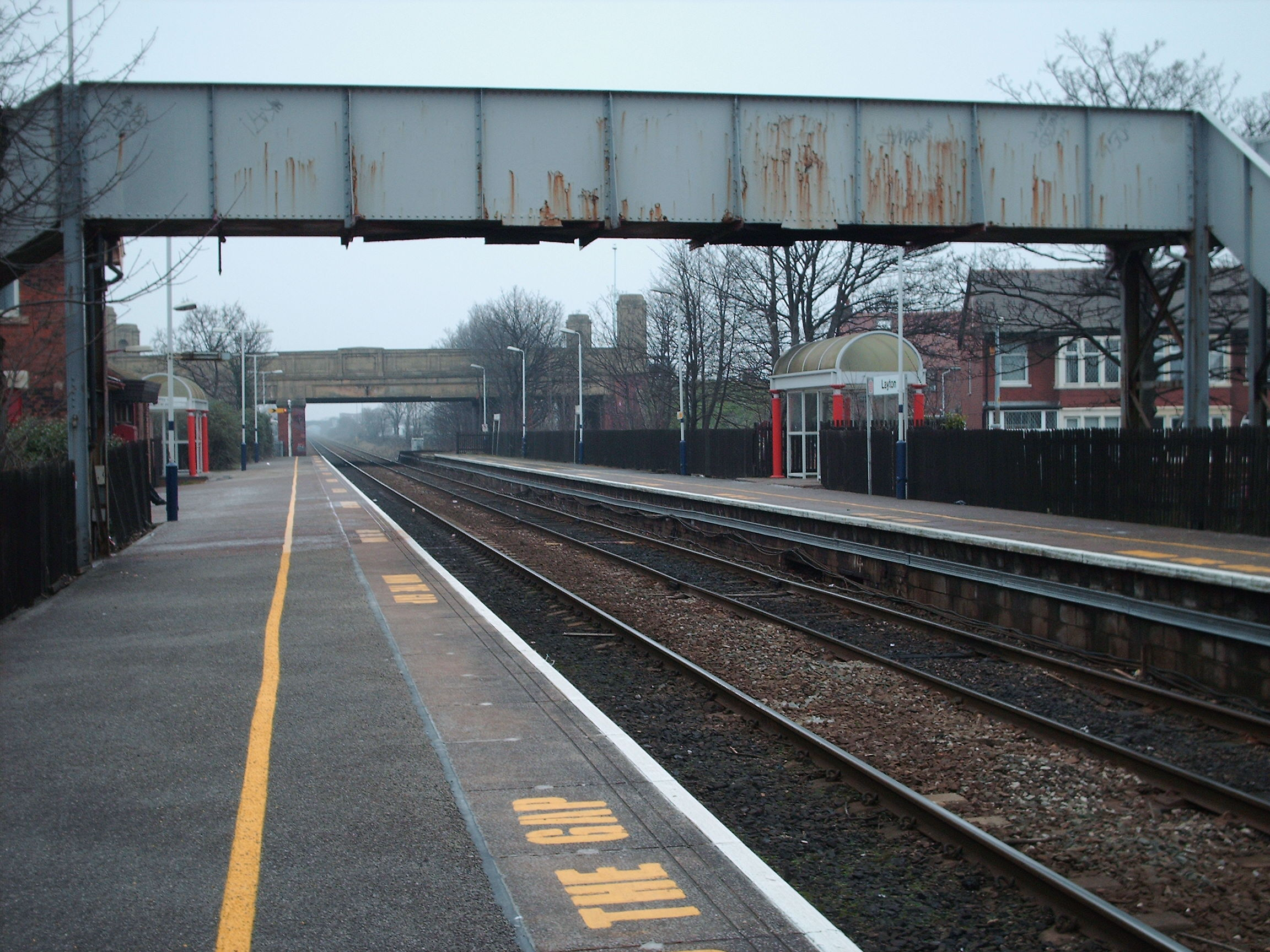 Taken by me 31 January 2006